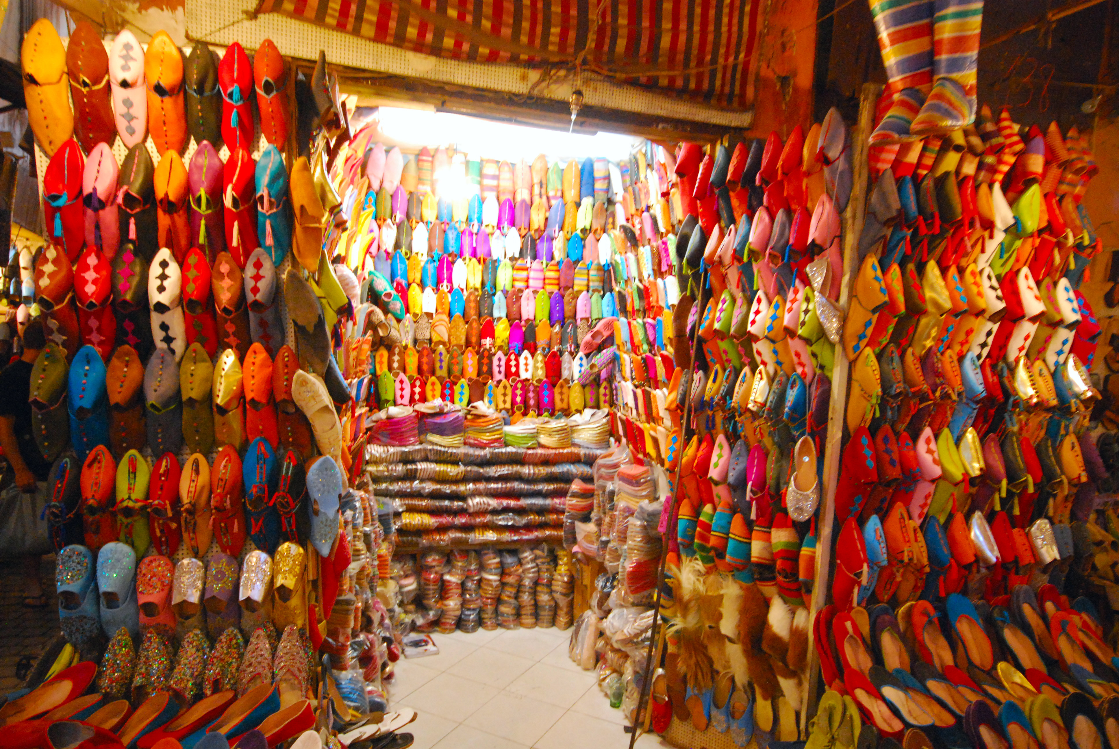 Many colourful shoes in a shop, Marrakech, Morocco